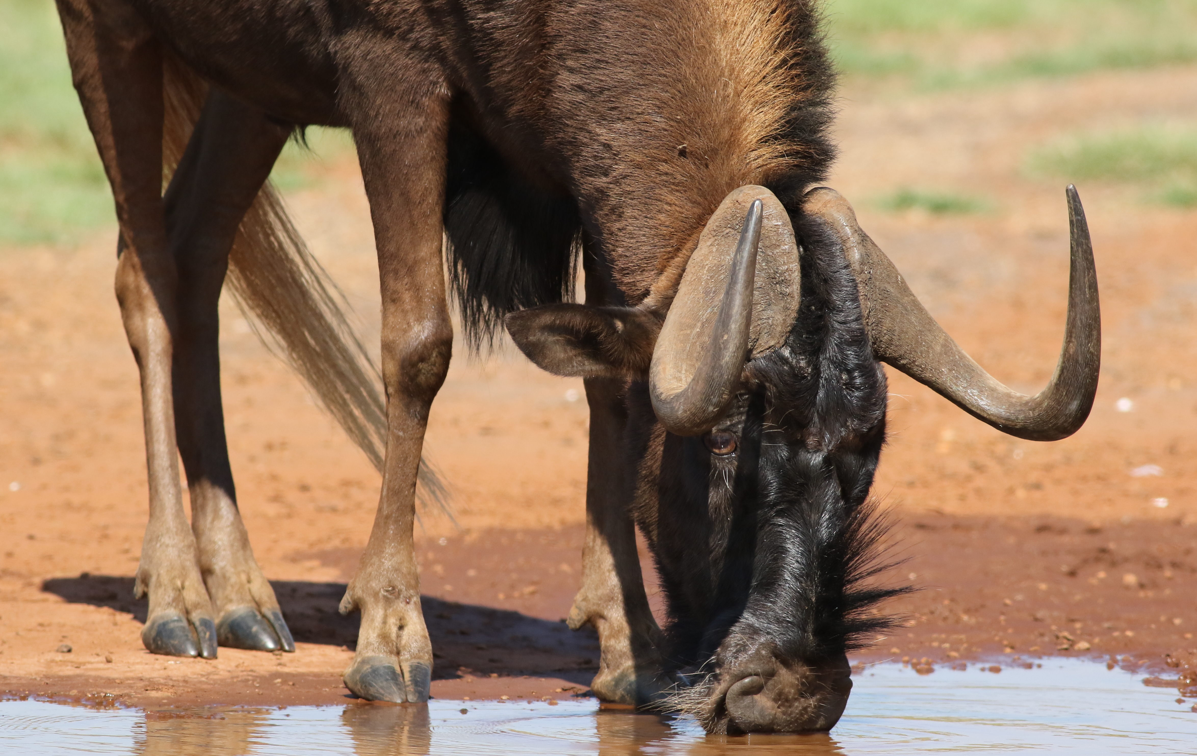 Black wildebeest, or white-tailed gnu, Connochaetes gnou at Krugersdorp Game Reserve, Gauteng, South Africa